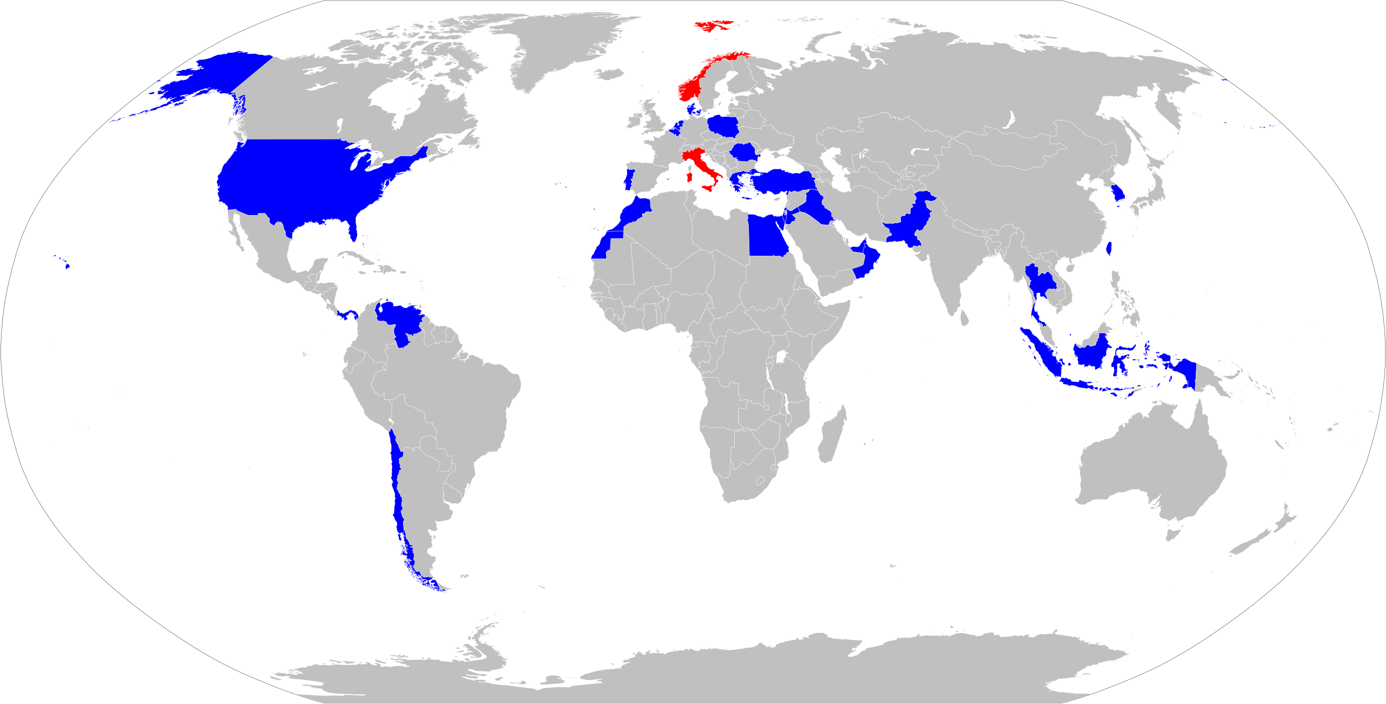 World operators of F-16 Fighting Falcon, 2010!